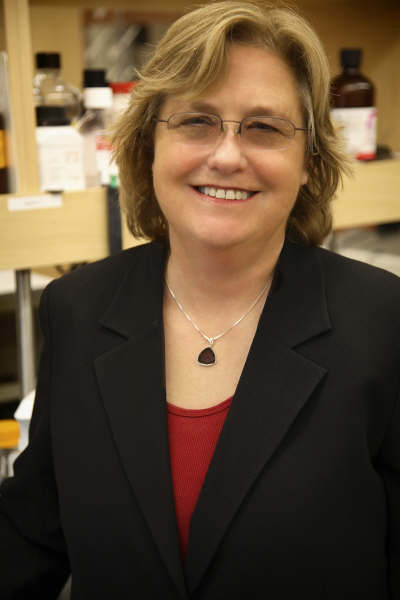 Picture of Jeanne Loring